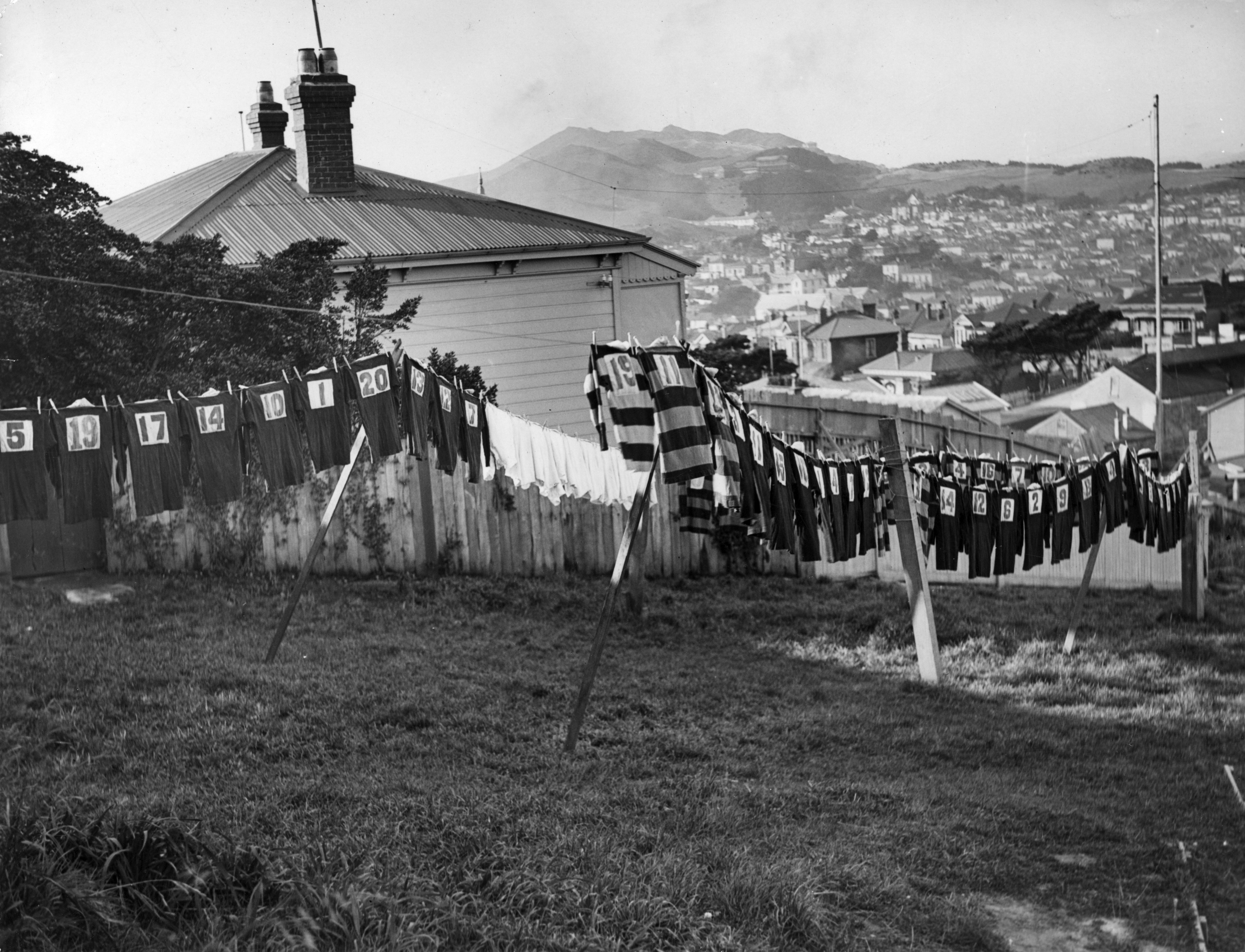 Rugby jerseys drying on washing lines, Wellington, ca 1930s Reference Number: PAColl-3071-1-02 Photographer: William Hall Raine Silver gelatin print Photographic Archive, Alexander Turnbull Library Find out more about this image on our Manuscripts + Pictorial website